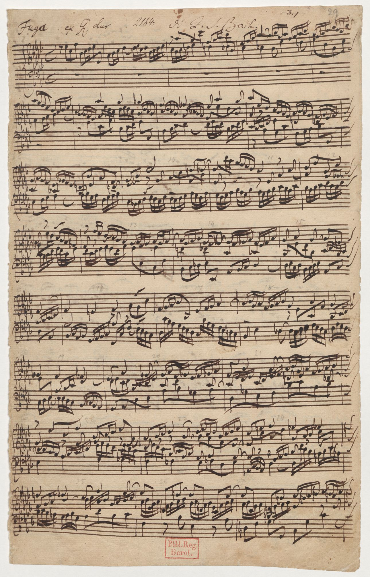 Autograph manuscript of Fugue No. 17 in A flat major, BWV 886/2, from Book II of the Well-Tempered Clavier by Johann Sebastian Bach. High resolution image in colour.